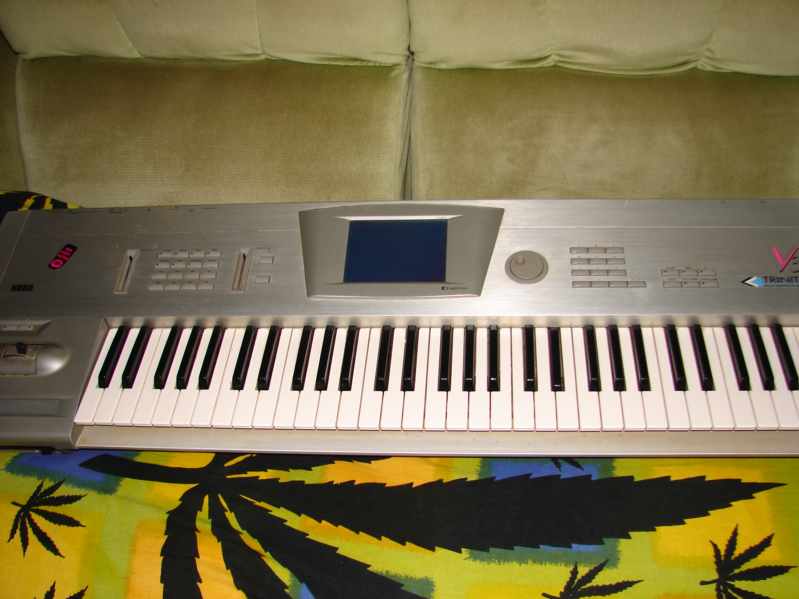 This is my property.I took it and uploaded it. Korg Trinity V3 "MOSS-TRI" Z1 board pre-installed